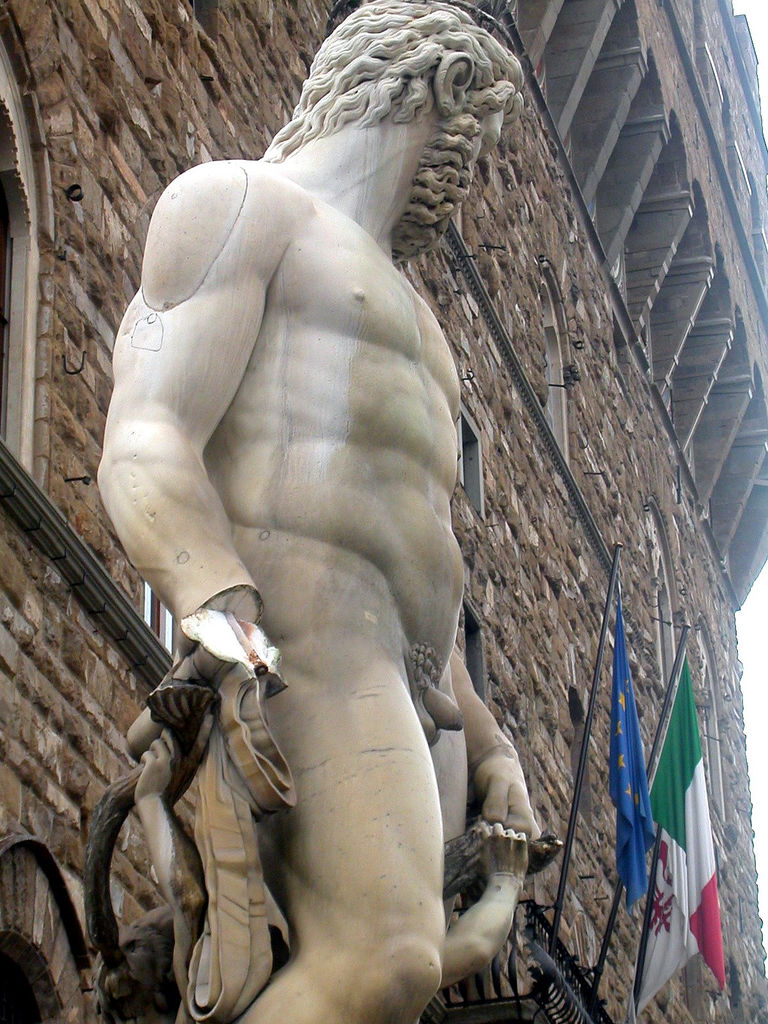 The Neptune Fountain in Florence, Italy, after it's hand has been cut off by vandals in the night of August 4, 2005.